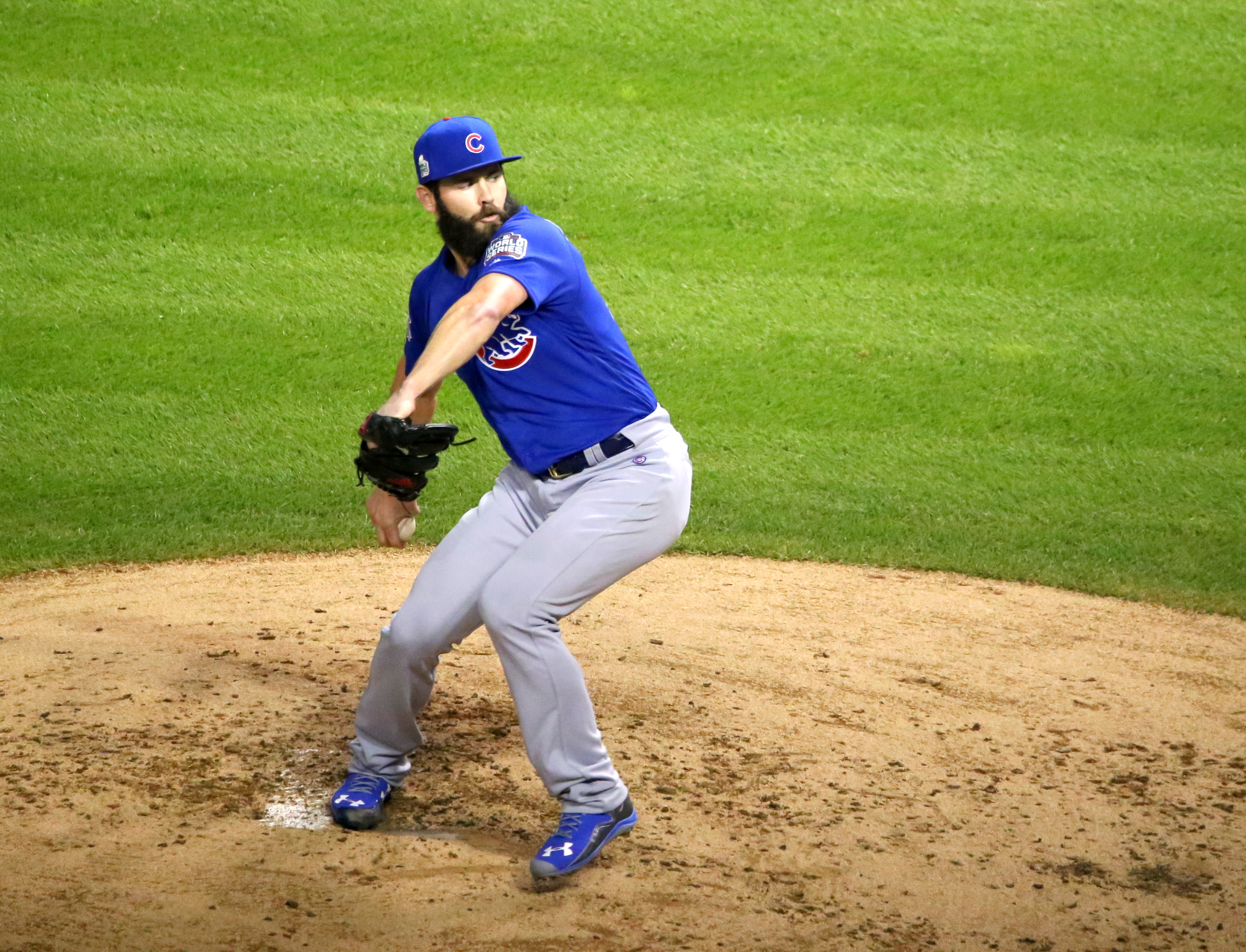 Cubs starter Jake Arrieta delivers a pitch in the first inning of World Series Game 6.